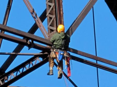 An engineer from Bergmann Associates inspecting the Rosendale trestle.